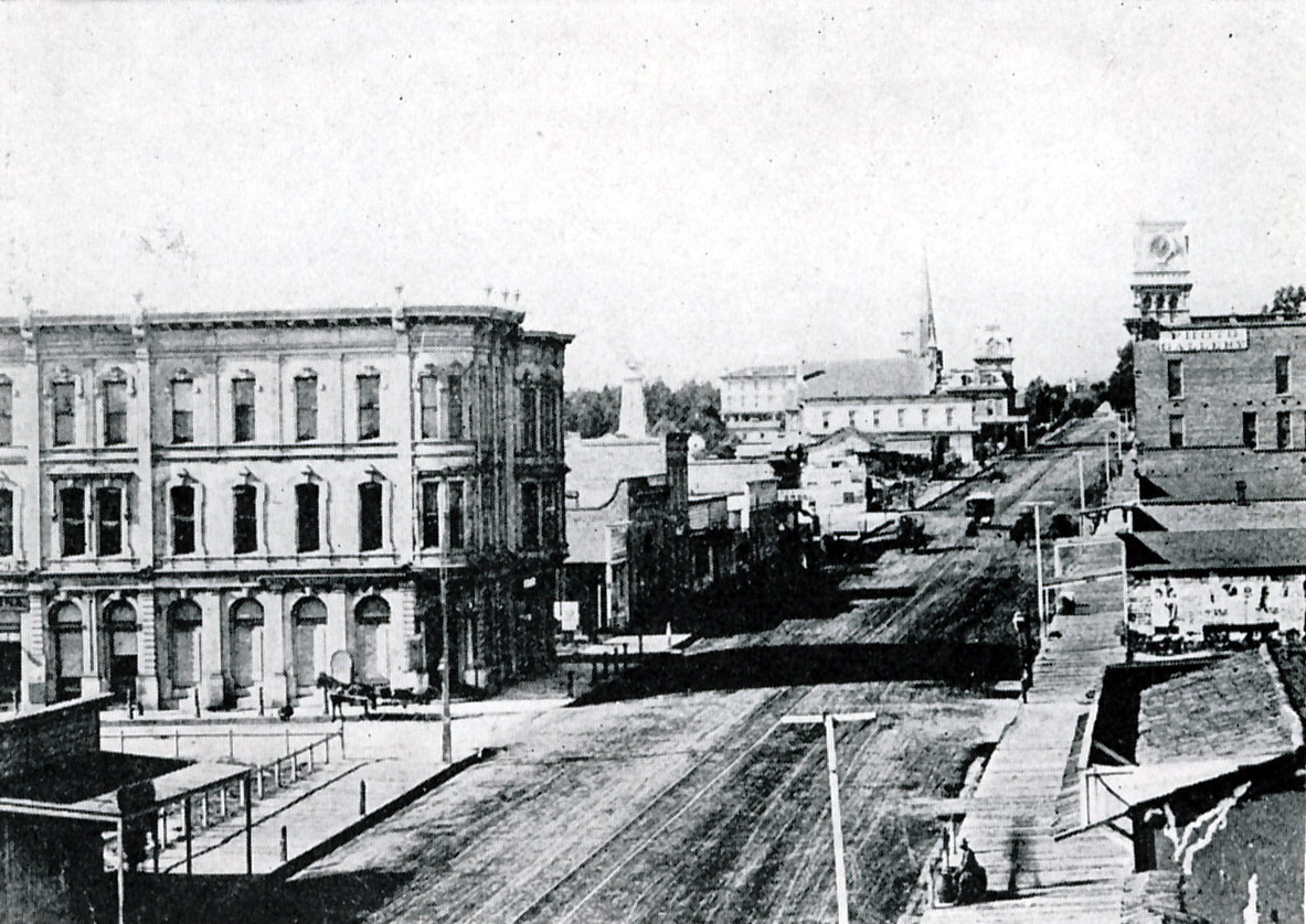 State Street in Santa Barbara, California in the 1880s. Looking north from Canon Perdido Street. Picture taken from the book, Santa Barbara: Tierra Adorada (A Community History) 1930. The large buildings in this picture are from left to right: First National Gold Bank, rear of Arlington Hotel, Presbyterian Church, Ellwood Hotel, Cook's Building (clock tower)